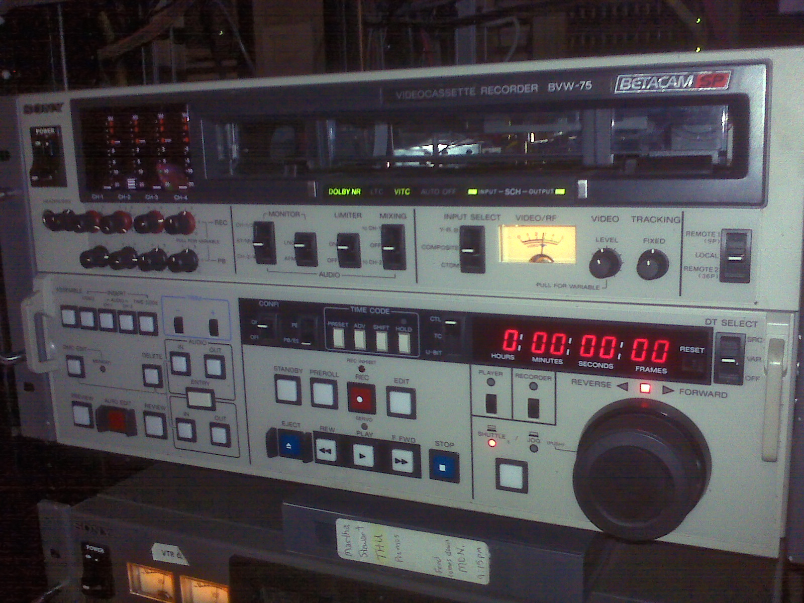 A Sony BetacamSP BVW-75 VTR in daily use at Nexstar Broadcasting's West Central Texas master control hub facility (KTAB-TV/KRBC-TV/KLST-TV/KSAN-TV), located in Abilene, Texas.